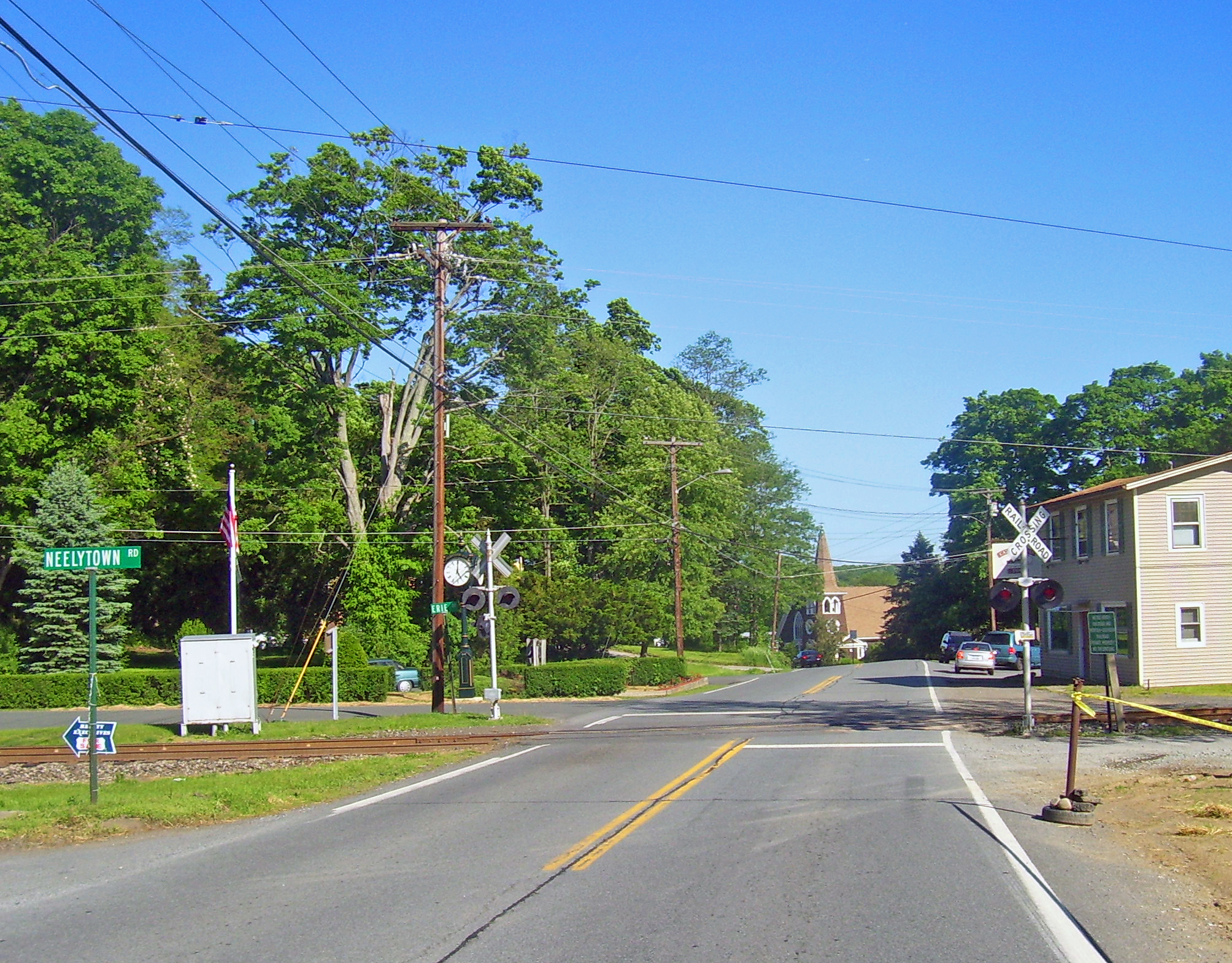 Looking east along NY 207 through Campbell Hall, NY, USA